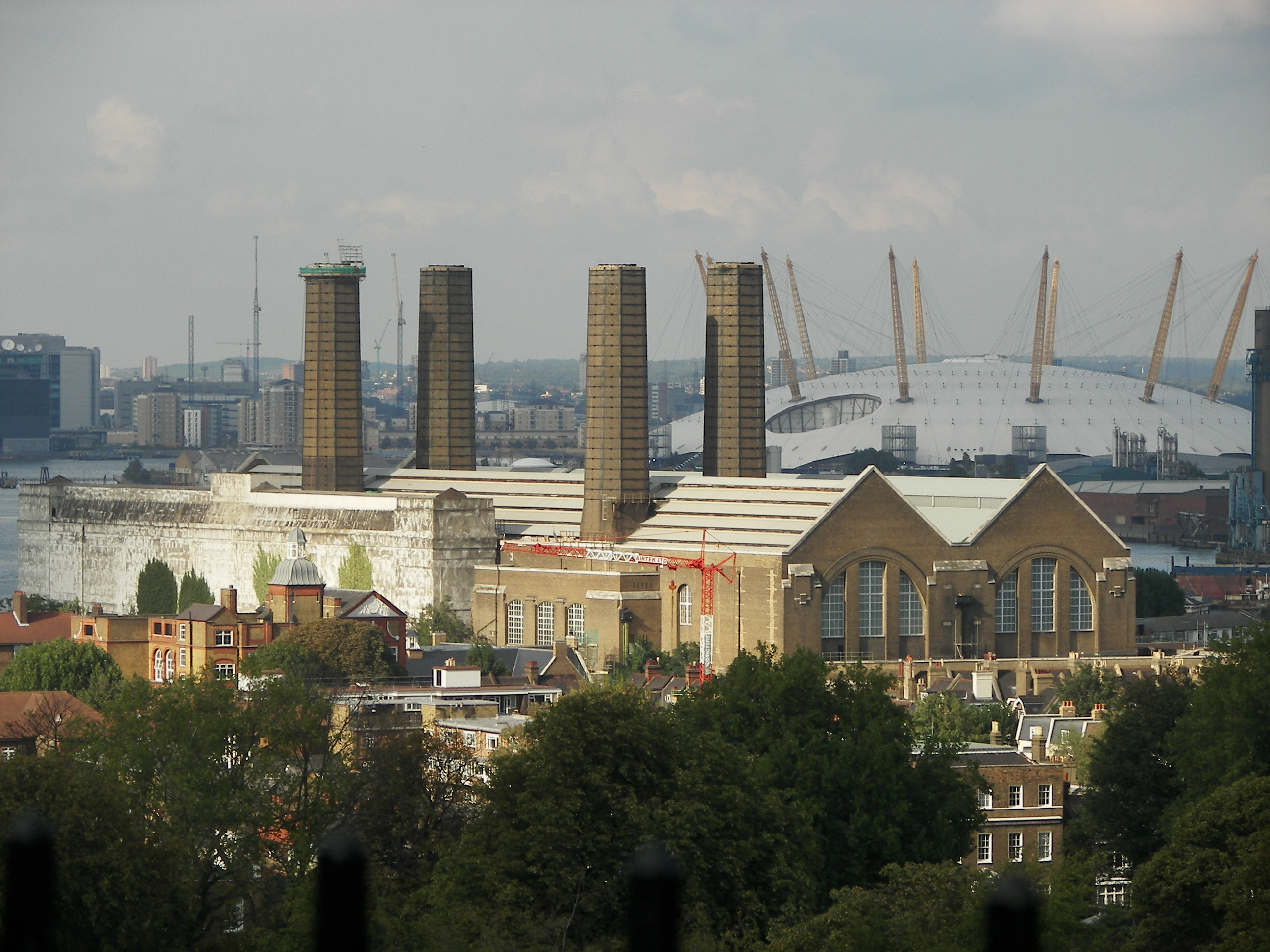 Greenwich Power Station in Greenwich, London, taken from the Greenwich Royal Observatory hill. In the background the O2 is visible.